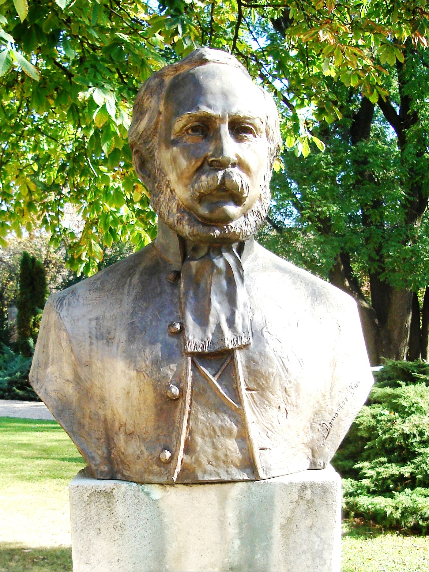 Bust of the Hungarian linguist and ethnographer Antal Reguly (1819—1858) in the garden of the Hungarian Geographical Museum (Érd, Hungary), created in 1999 by sculptor Béla Domonkos.